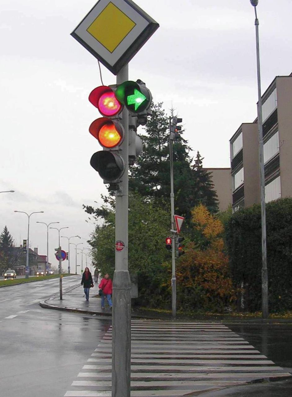 Strašnice, Prague, the Czech Republic. Na Padesátém Street, a crosswalk near Skalka metro station and bus terminal. - Google Maps - Google Earth